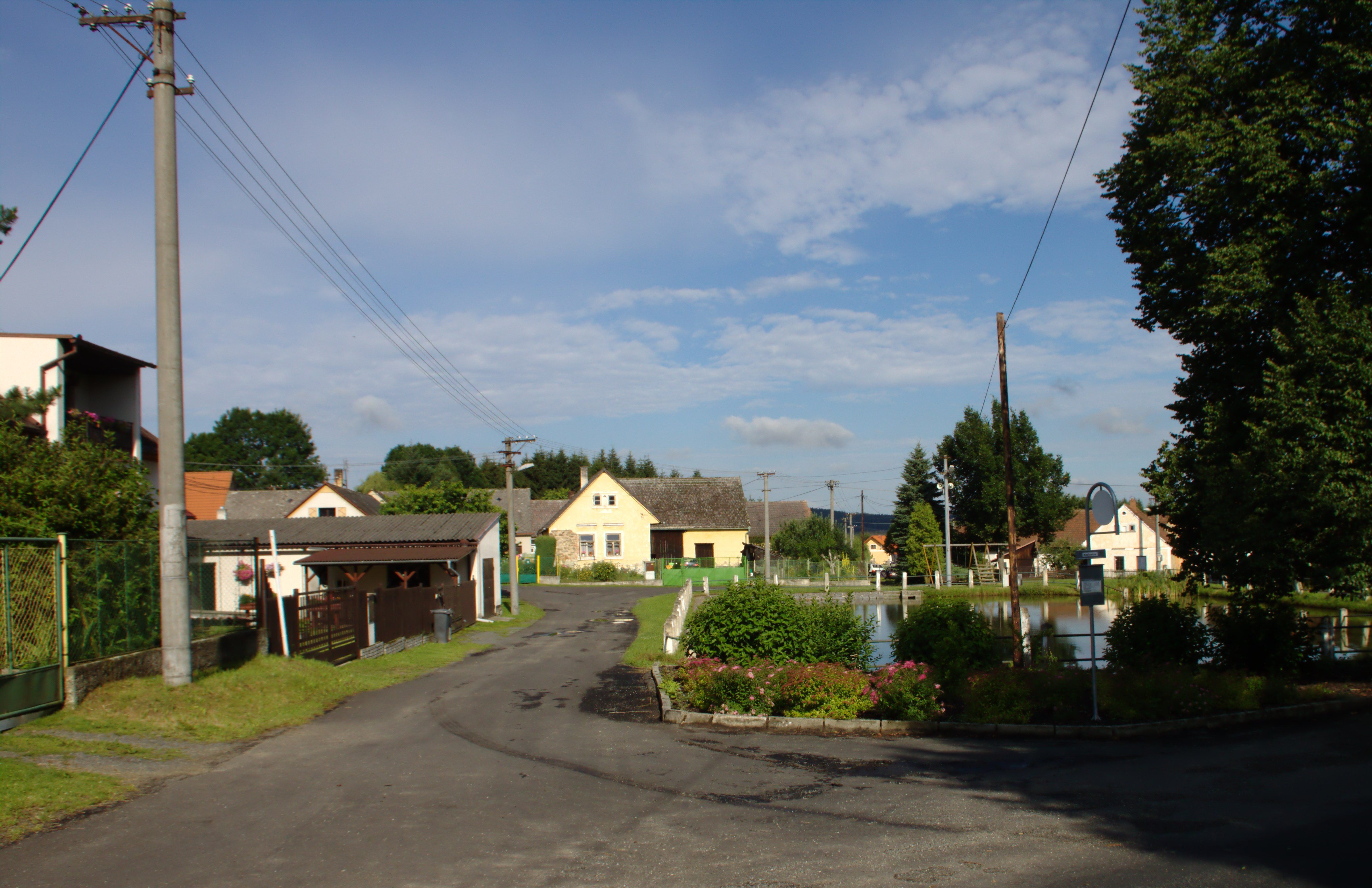 A common in the village of Kozlovice in Plzeň Region, CZ